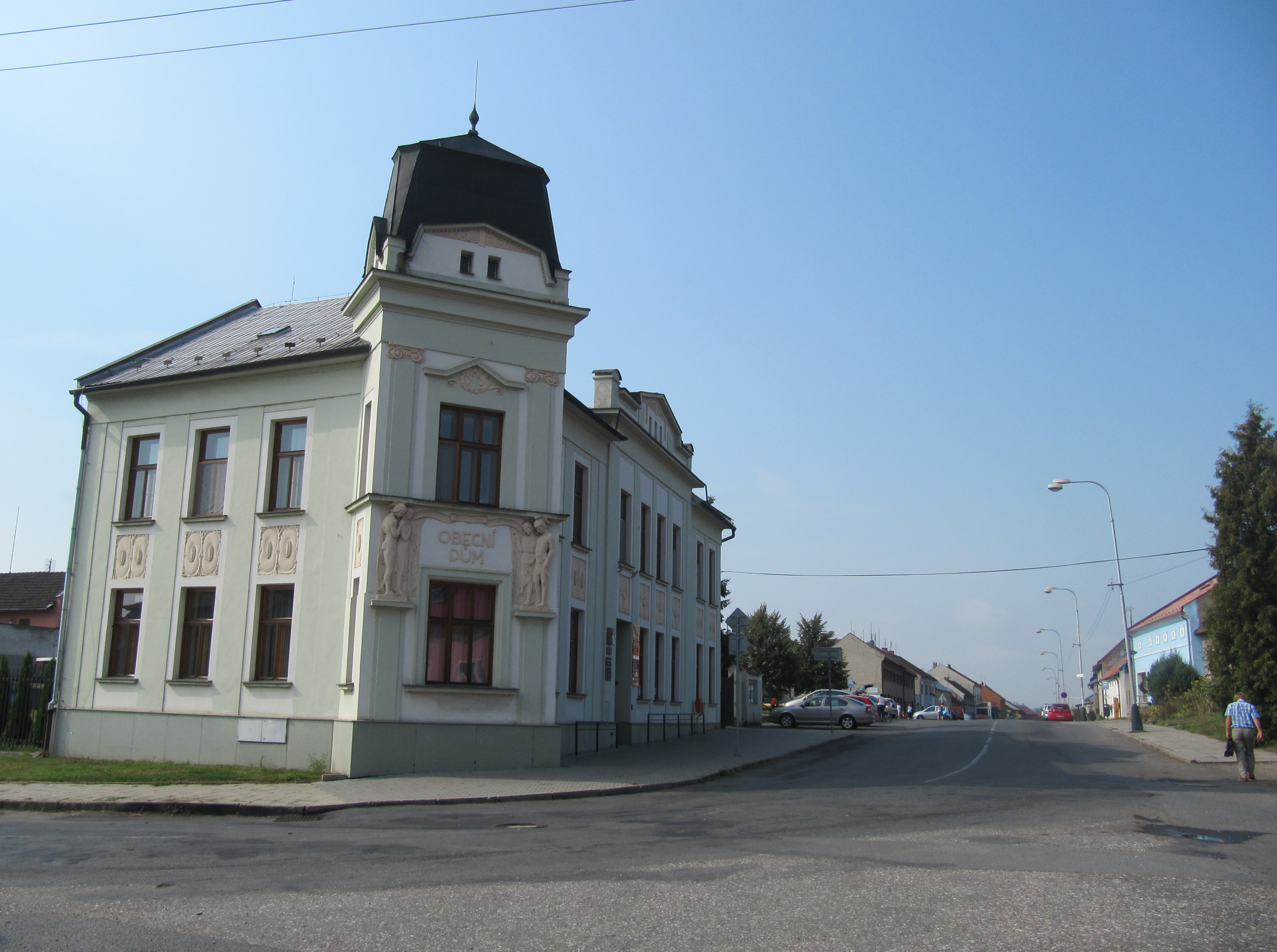 Horka nad Moravou in Olomouc District, Czech Republic. Municipal office and Náměstí Osvobození square.